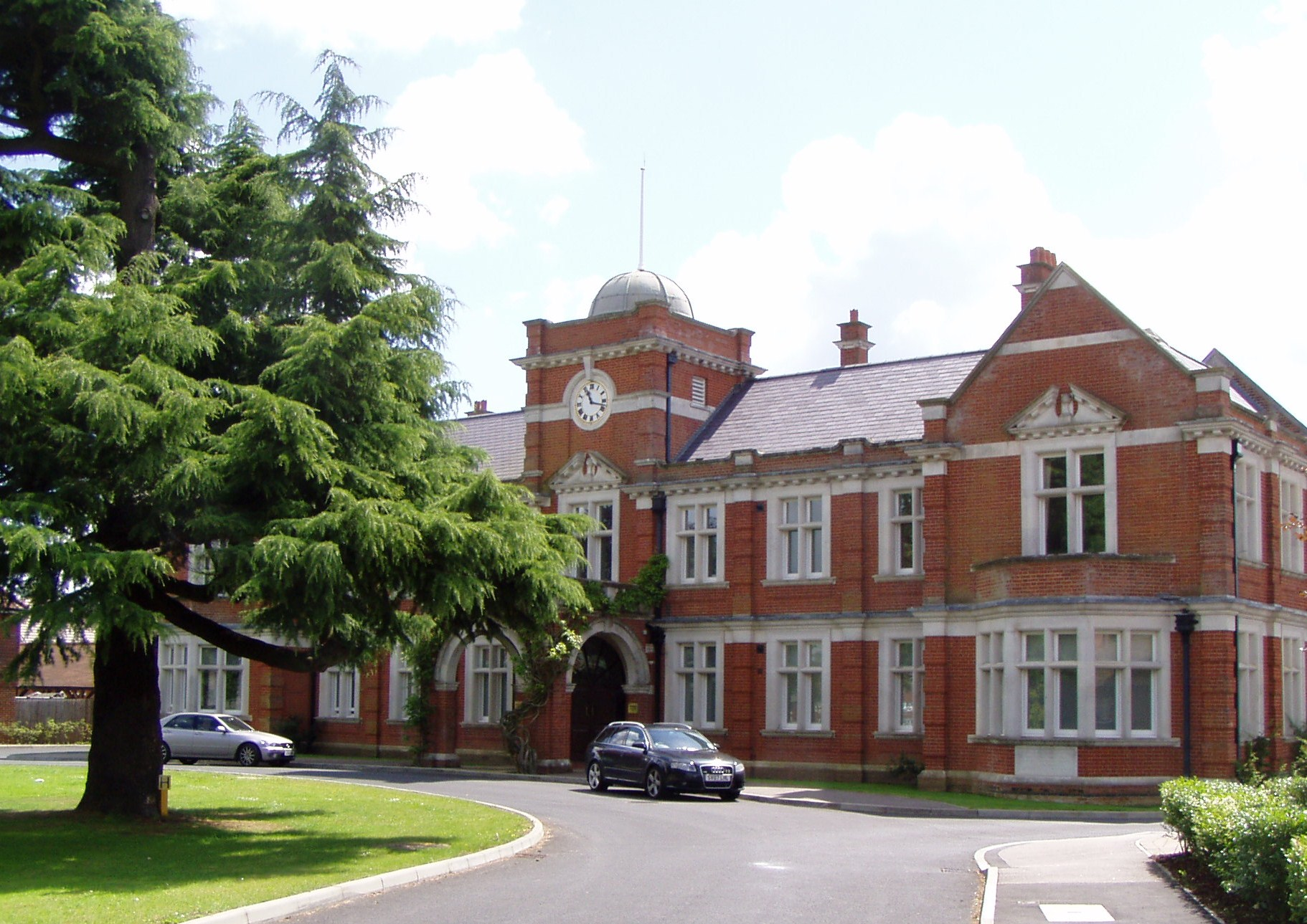 Old administration building in Netherne-on-the-Hill, today appartements